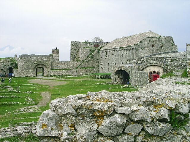 Town of Scutari, main town in northern Albania